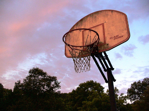 Bastketball Vicksburg, MS